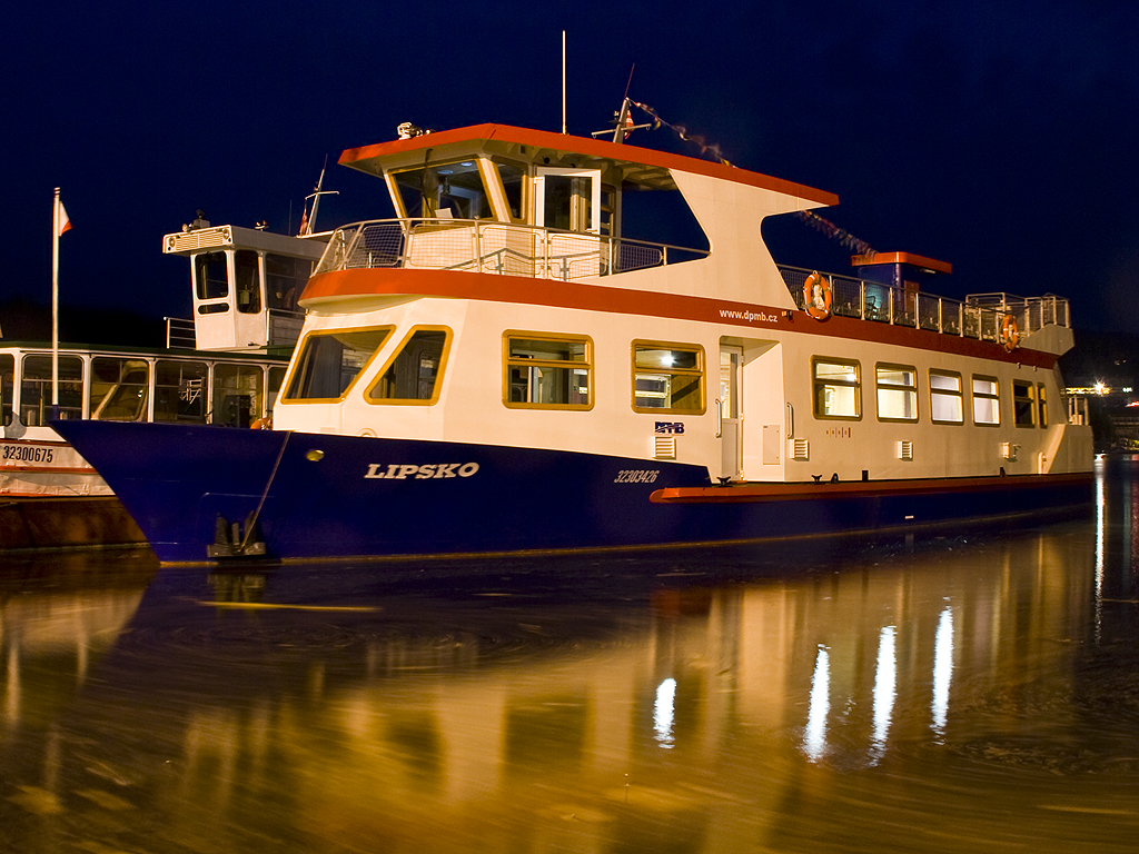 boat Lipsko